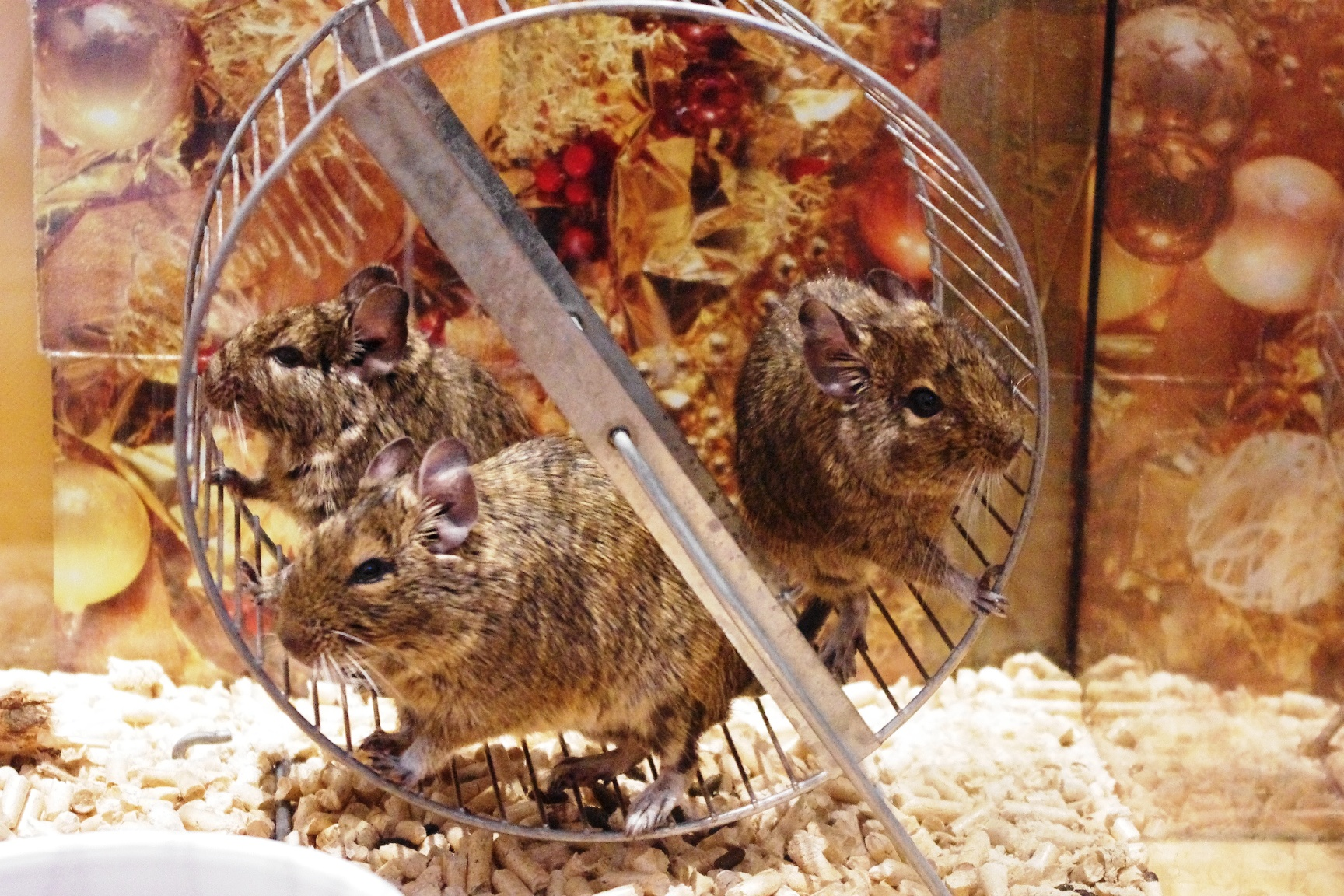 Degus in the running wheel